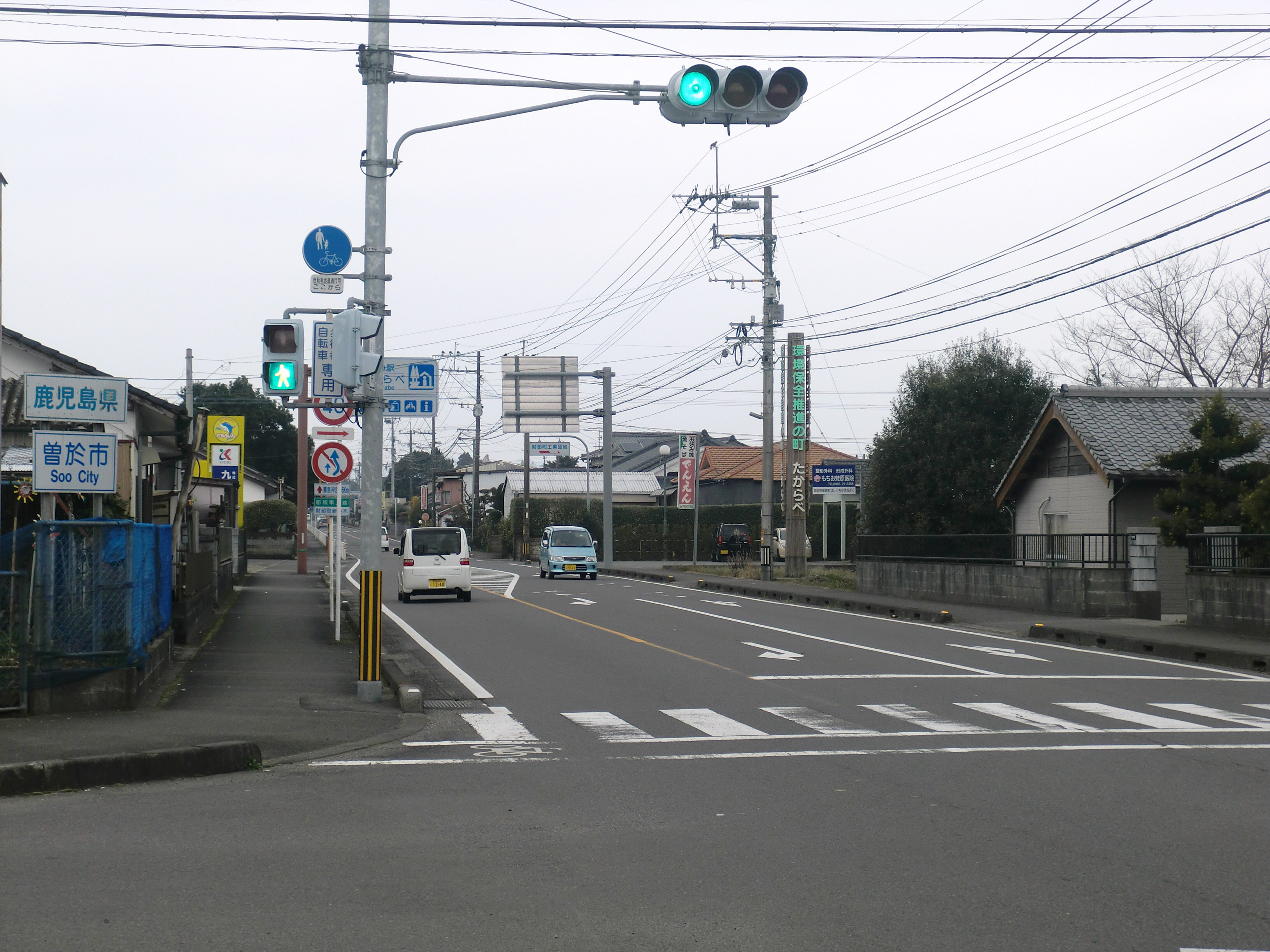 The Miyazaki Prefectural Road and Kagoshima Prefectural Road Route 2 on the border between Miyakonojo, Miyazaki and Soo, Kagoshima